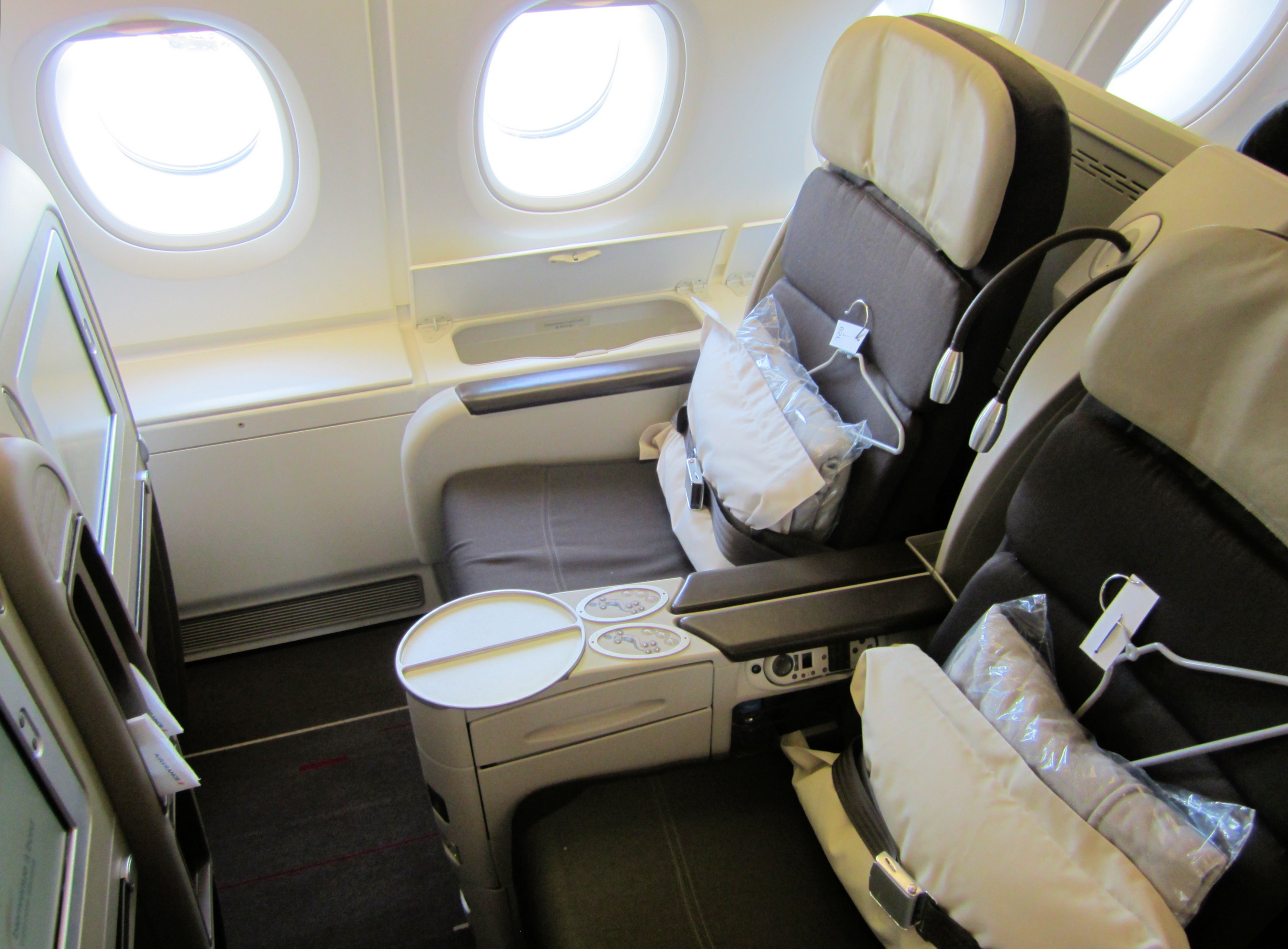 Affaires-Class Seat of Air France on the A380.